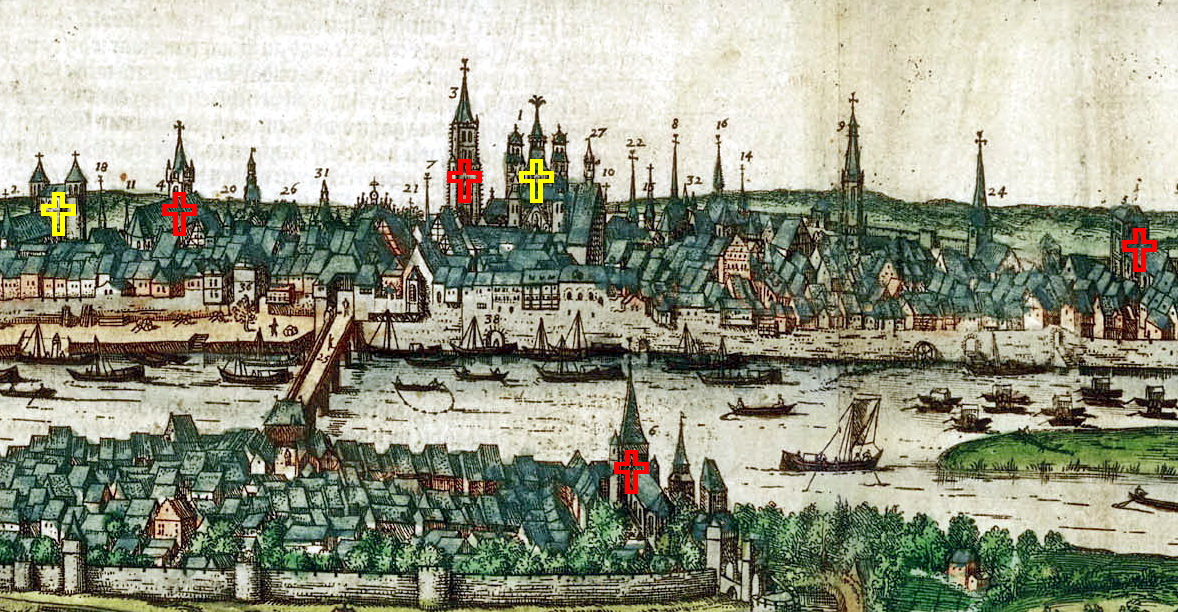 View of the Meuse river and the central part of Maastricht, the Netherlands, around 1570. Detail of a city panorama by Simon de Bellomonte, published in 1575 in Part 2 of Braun & Hogenberg's atlas of world cities Civitates orbis terrarum. The yellow crosses mark the two collegiate churches of Our Lady and Saint Servatius; the red crosses mark the four medieval parish churches: Saint Nicholas, Saint John, Saint Matthew and Saint Martin.